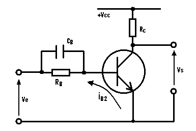 Ecretage_par_transistor